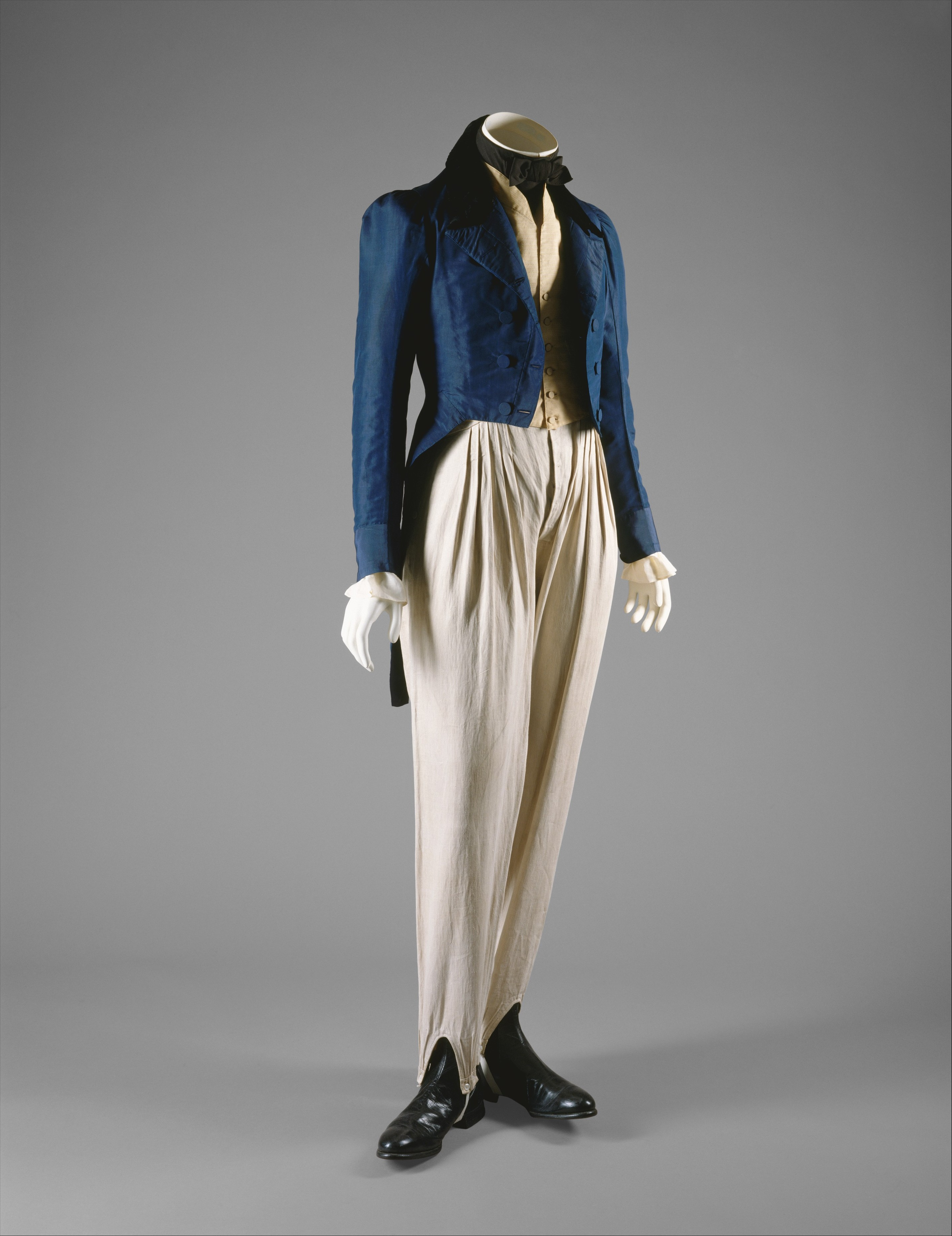 British; Coat